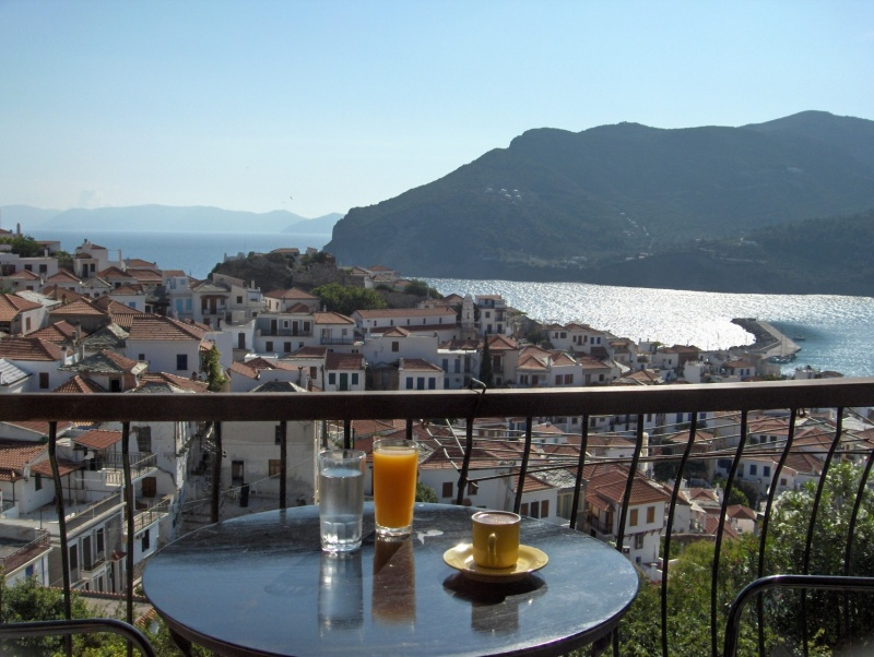 Skopelos is a pine-covered island in Northern Greece.